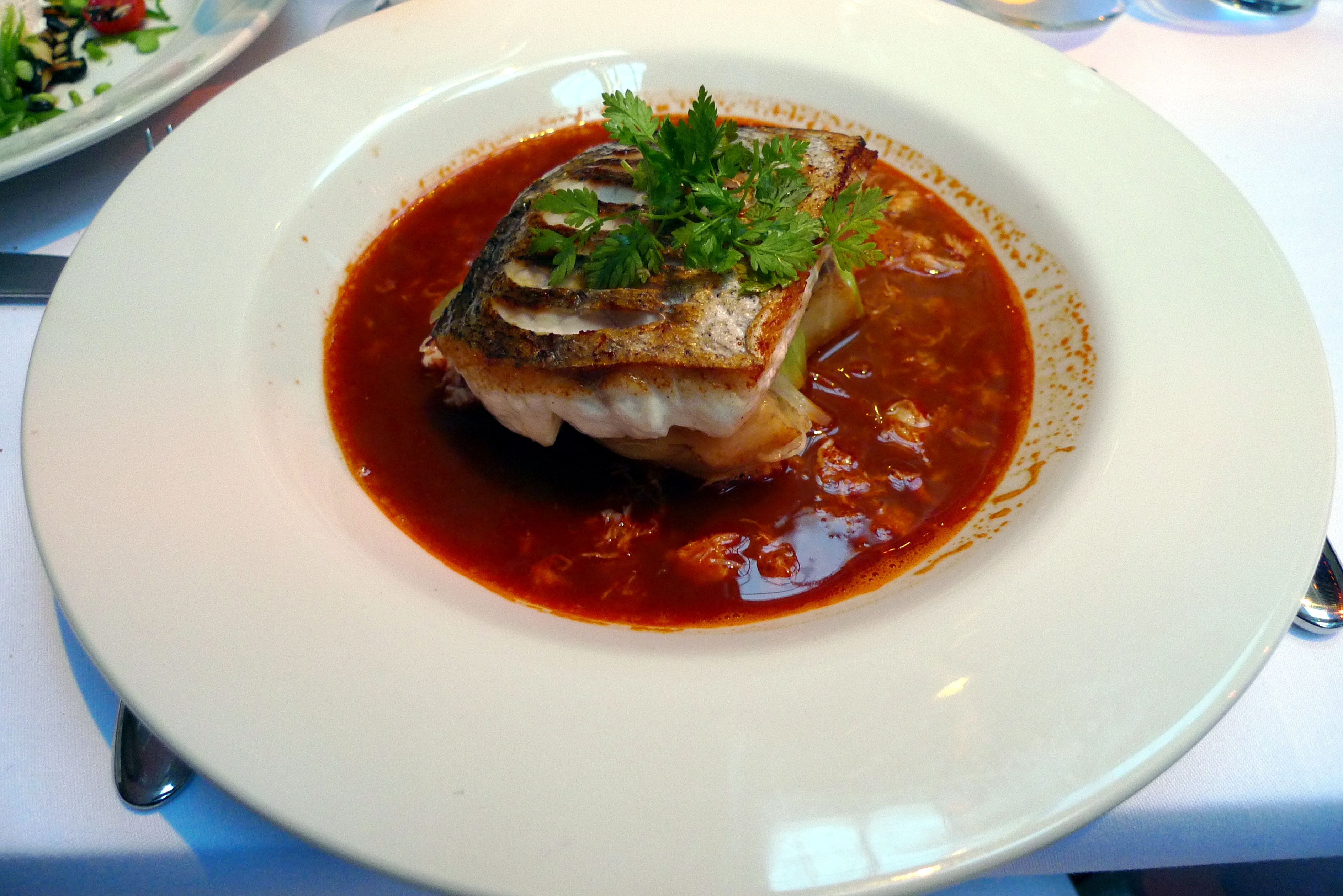 The roast fillet of hake with leeks and fennel in a Cornish crab broth. At The Old Brewery, Pepys Building, Old Royal Naval College.